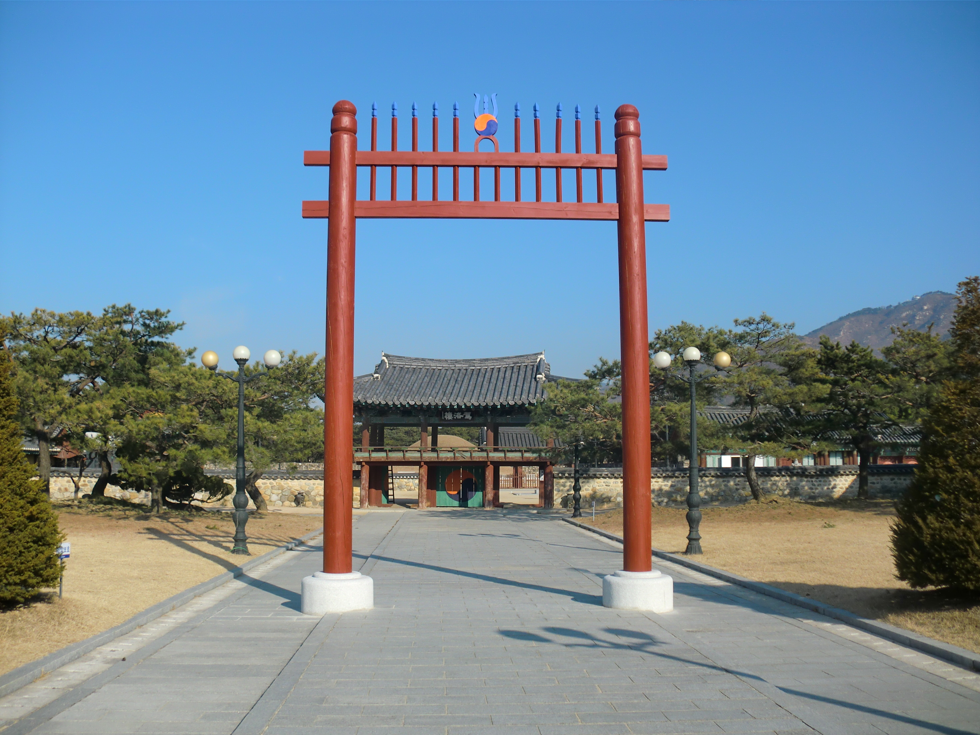 Tomb of a king in the city of Gimhae, South Gyeongsang.